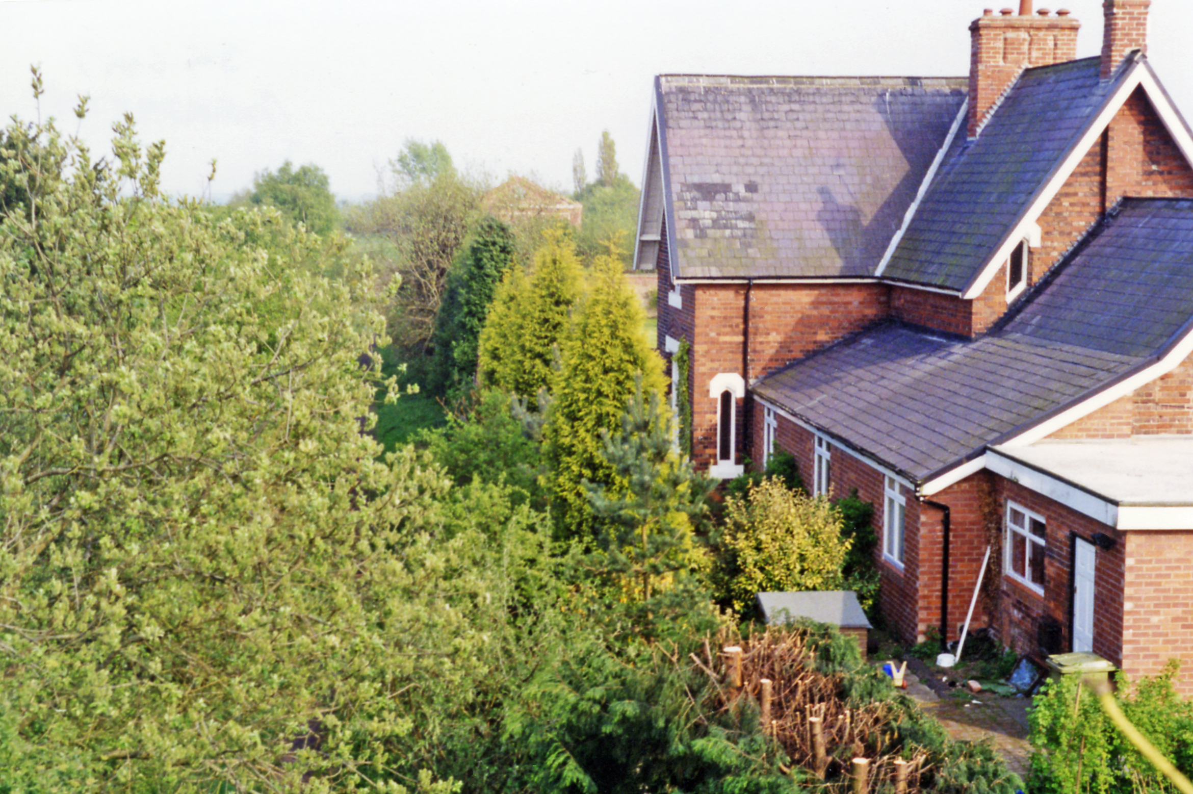 Former station at Farnsfield, 1995. View eastward, towards Southwell and Rolleston Junction: ex-Midland, Rolleston Junction - Southwell - Mansfield line. The station was closed to passengers from 12/8/29 when services were cut back to Southwell - Rolleston Junction, but goods continued until the line closed completely on 27/4/64